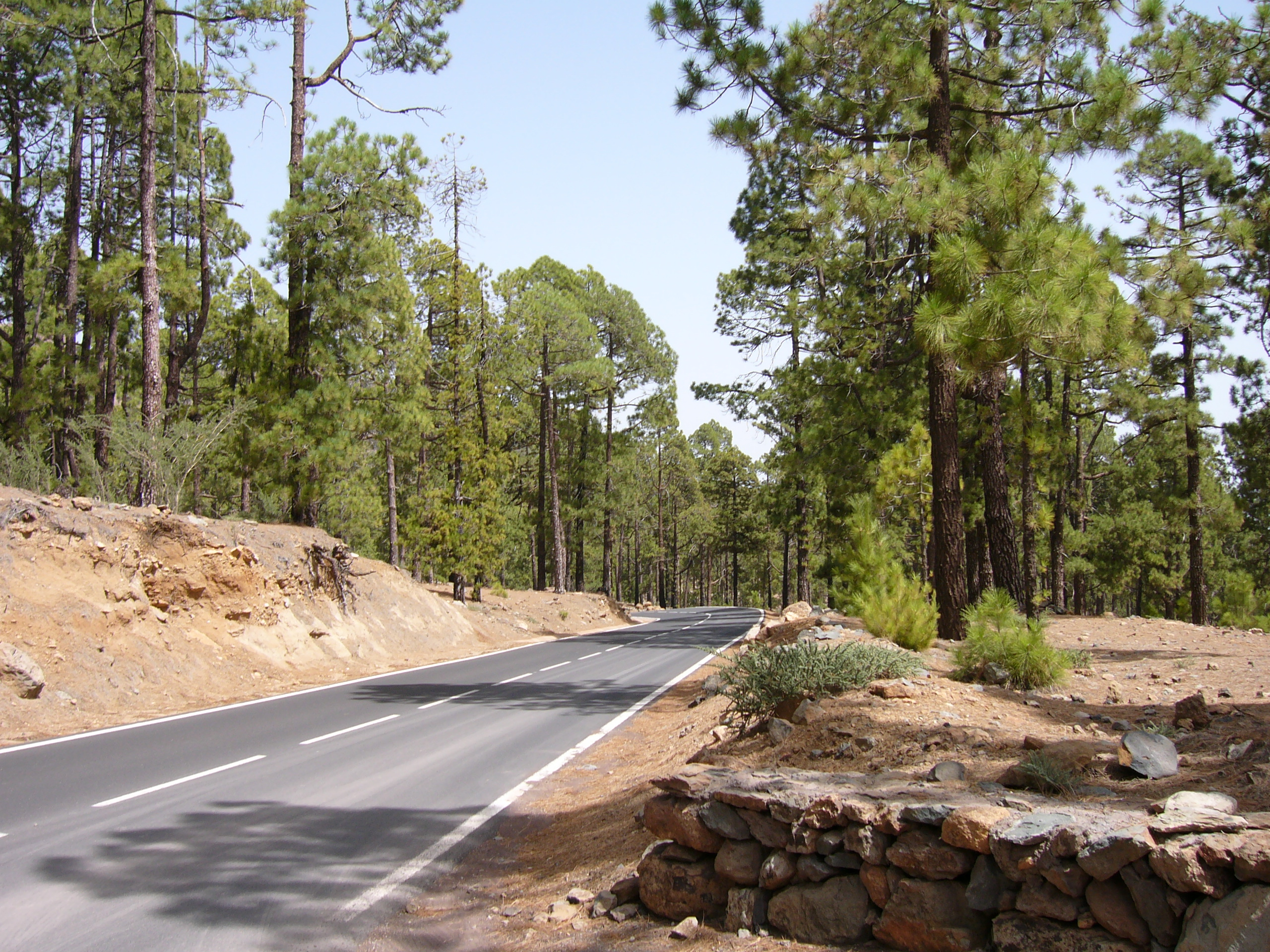 Pinus canariensis Teide National Park Tenerife, Canary Islands, Spain September 2005 Olaf A. Koch own picture